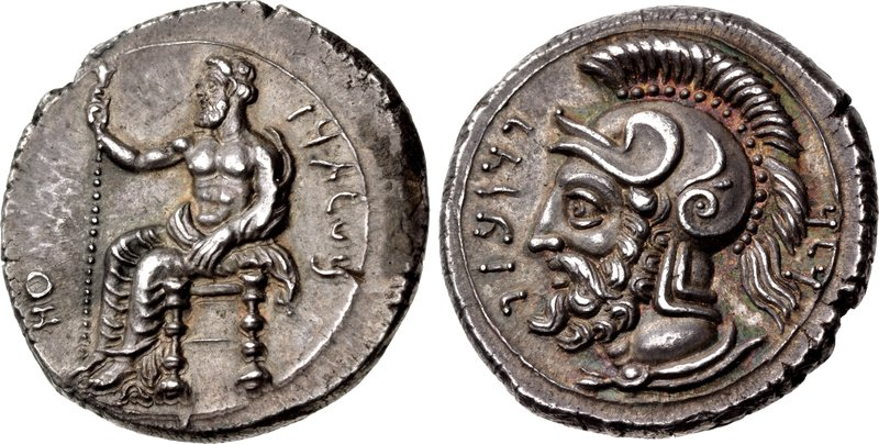 CILICIA, Tarsos. Pharnabazos. Persian military commander, 380-374/3 BC. AR Stater (23mm, 10.72 g, 10h). Struck circa 380-379 BC. Baal of Tarsos seated left, his torso facing, holding lotus-tipped scepter in extended right hand, left hand holding chlamys at his waist; monogram to left, B’LTRZ (in Aramaic) to right / Bearded head left, wearing crested Attic helmet, drapery around neck; PRNBZW (in Aramaic) to left, KLK (in Aramaic) to right. Casabonne Series 4; Moysey Issue 2, 42b = Mildenberg, Münzwesen 90 = L. Mildenberg, “Notes on the Coin Issues of Mazday” in INJ 11 (1990-1991), 1 (this coin); SNG BN –; SNG Levante –; SNG von Aulock 5930 (same obv. die); Brindley 234. Choice EF, even dark gray tone with deep iridescence around the devices. Very rare with this monogram, Moysey records only two examples, three in CoinArchives.